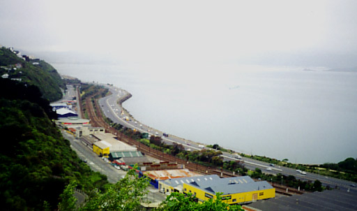 Hutt Road and Kaiwharawhara from Barnard St..